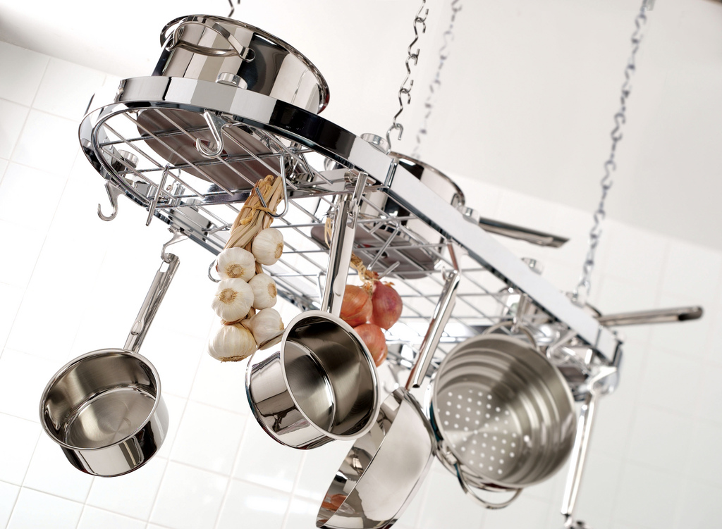 Lifestyle image of the Hahn stainless steel pan range on a Hahn hanging pan rack. Image attribution to